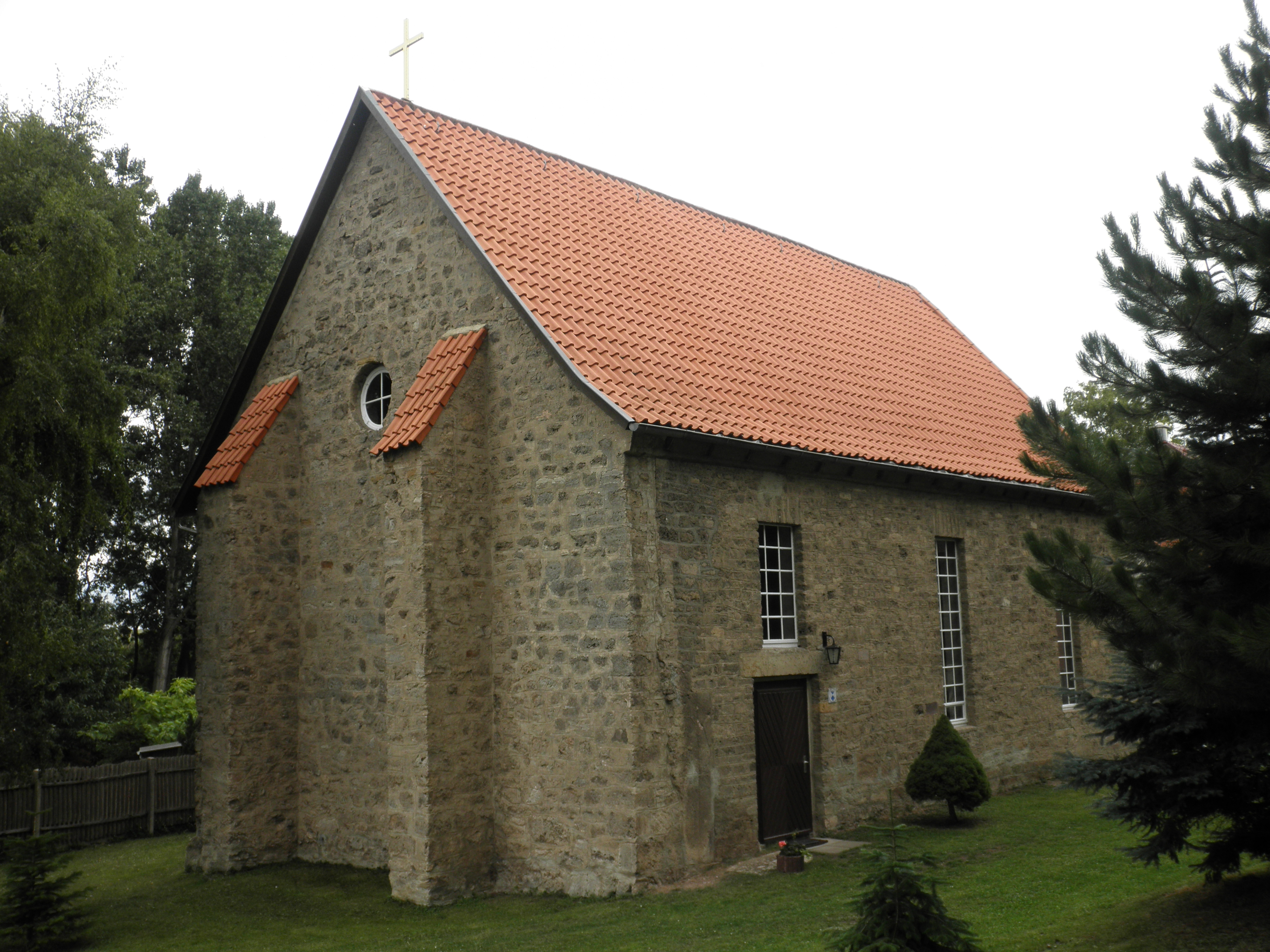 Church in Lützensömmern (Kutzleben) in Thuringia